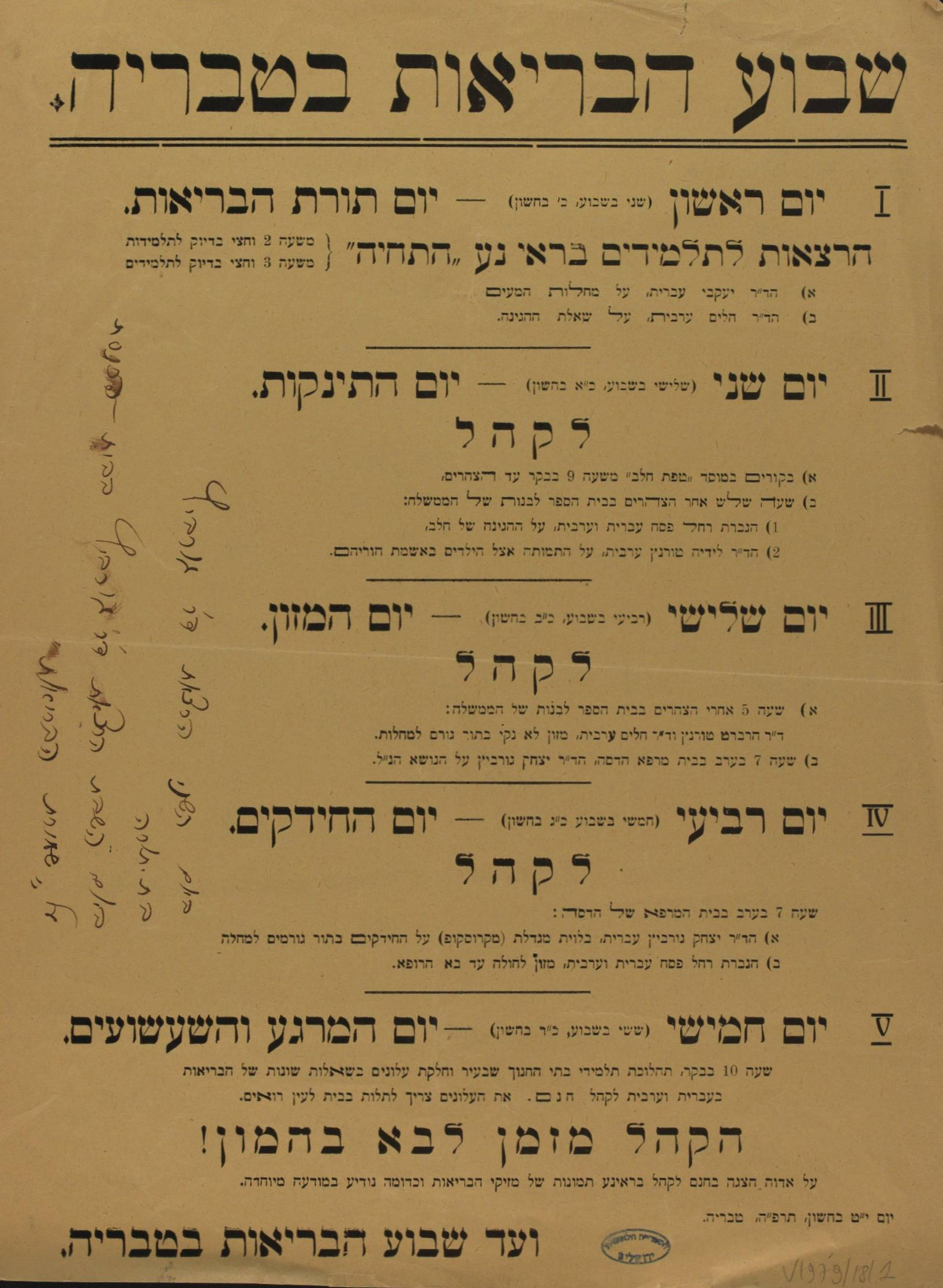 Health week